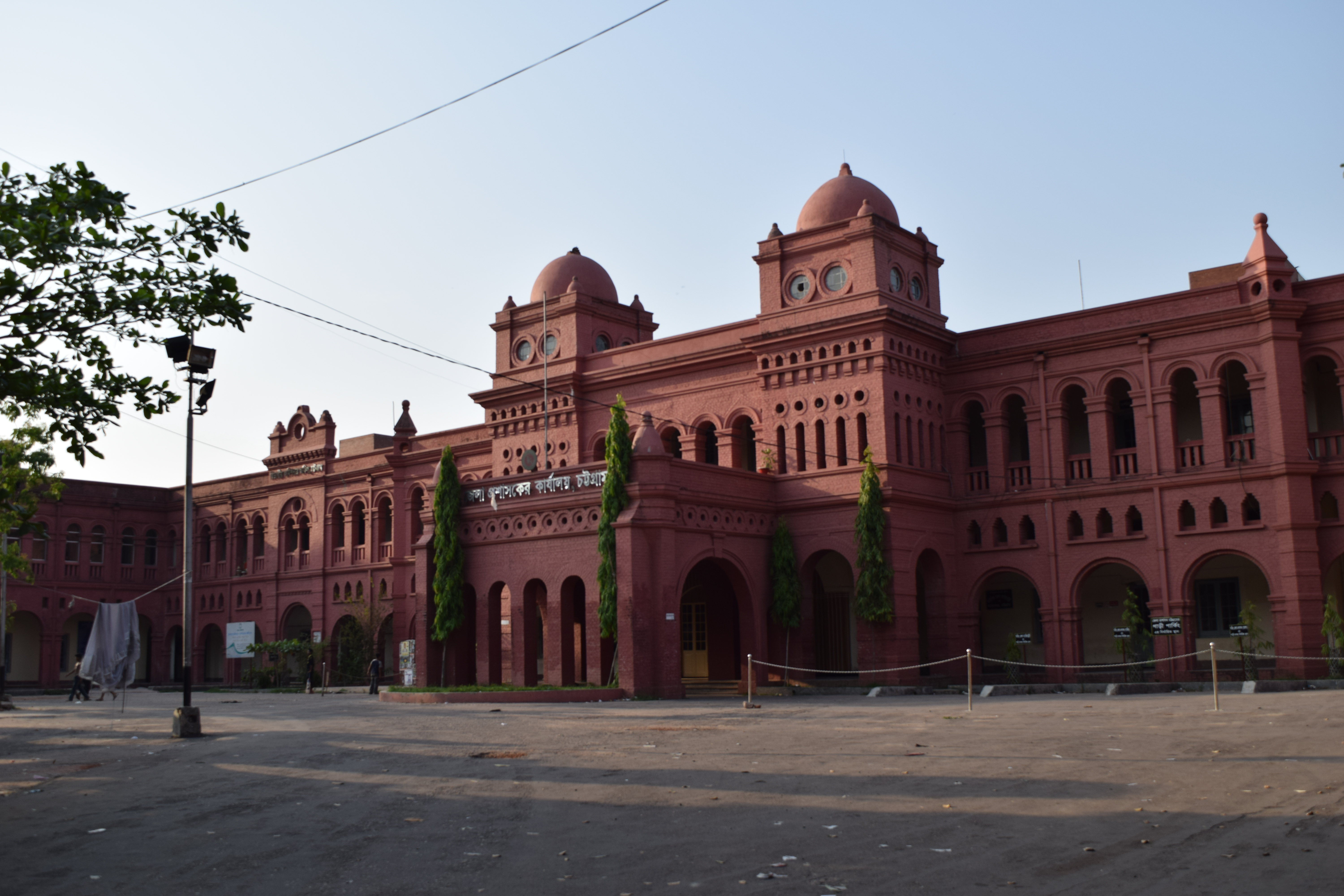 Chittagong Court Building